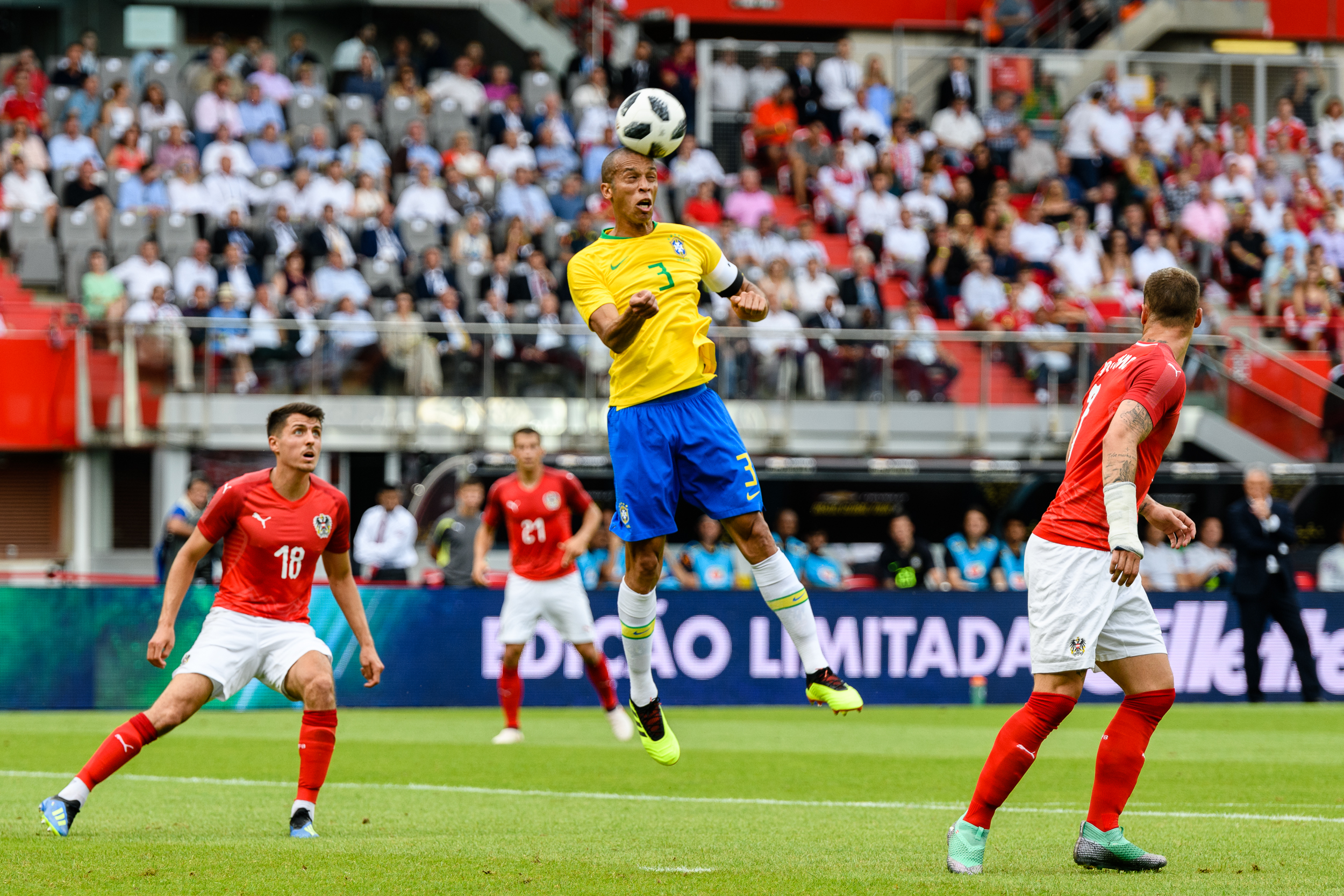 FIFA Friendly Match Austria vs. Brazil 2018/06/10 in Vienna/Ernst-Happel-Stadium. Picture shows Alessandro Schöpf (AUT #18), Miranda (BRA #3).